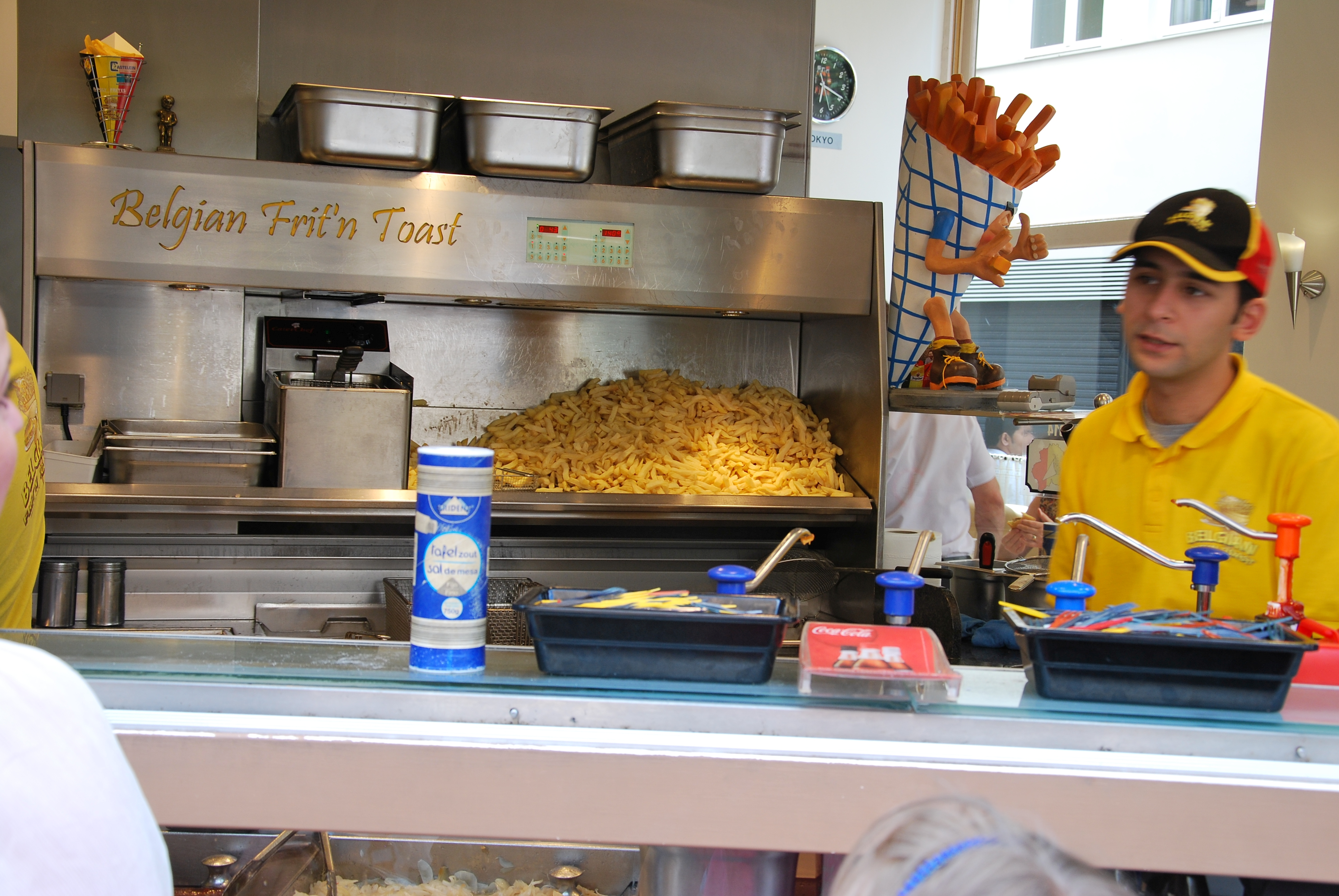 Belgian frites shop in Brussels